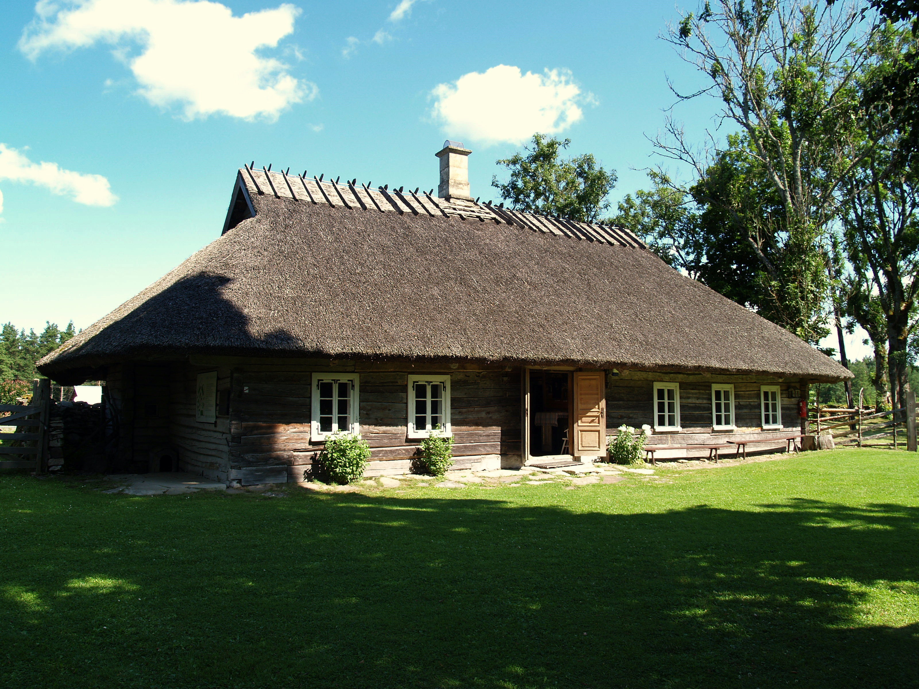 Mihkli Farm Museum